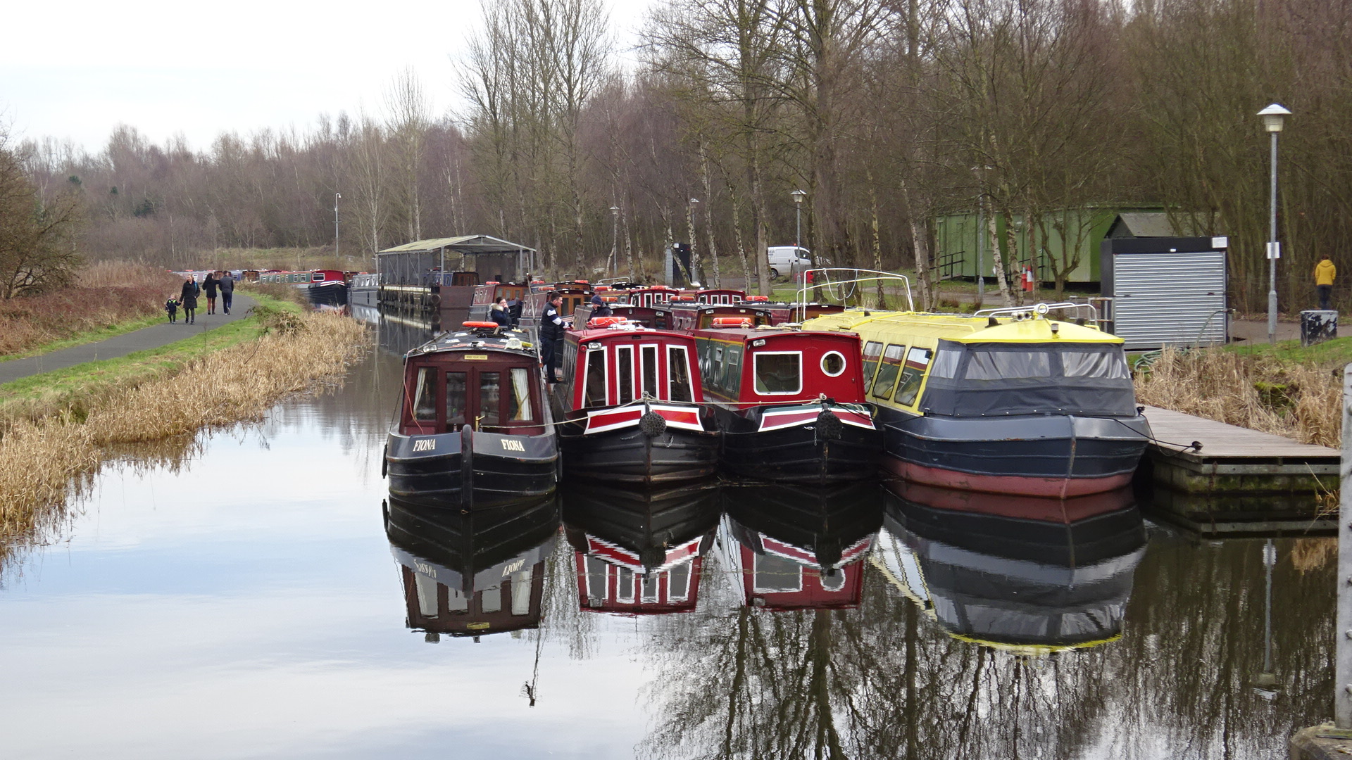 Canal basin, Forth & Clyde Canal, Falkirk, Scotland. Tied up for the winter.